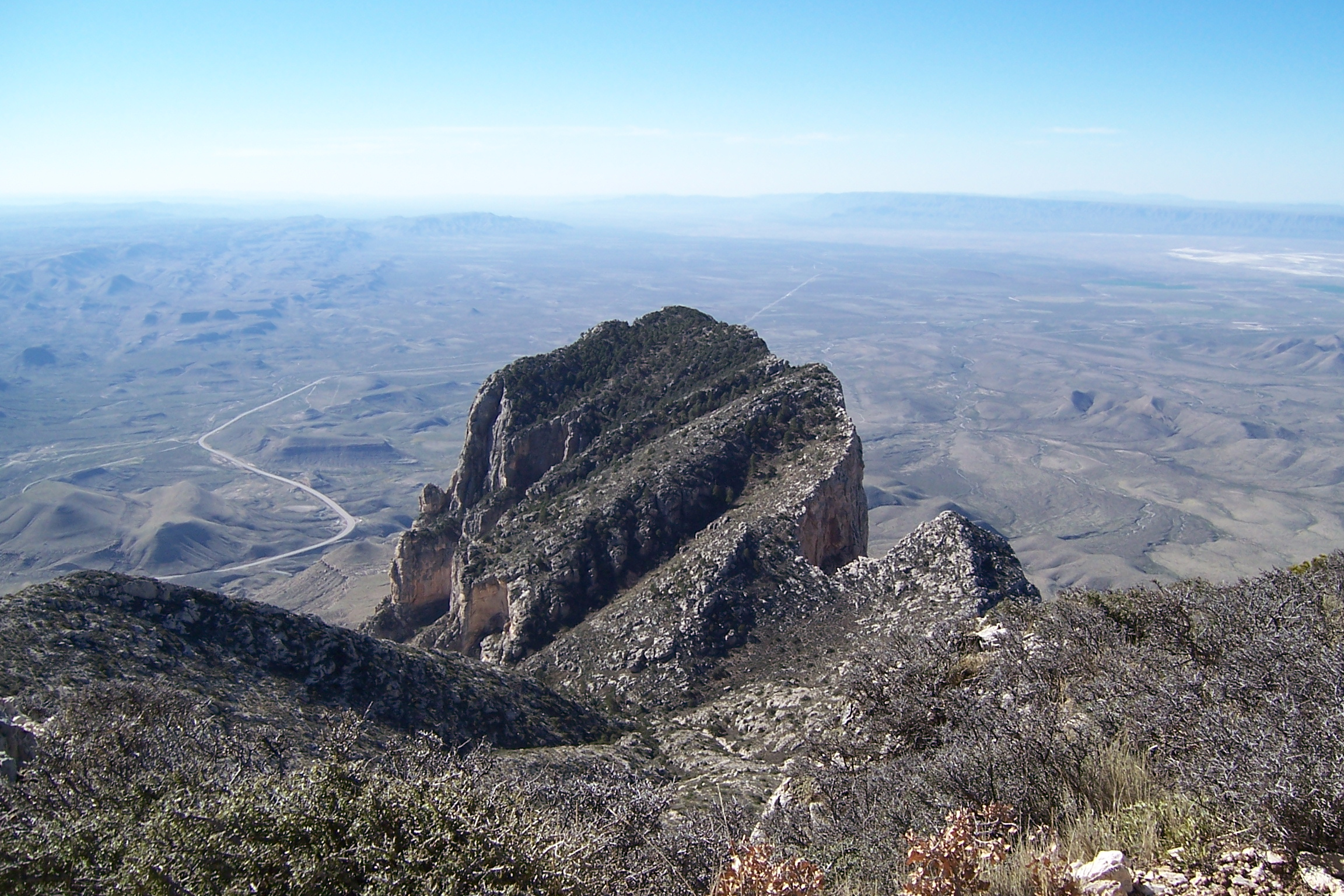 El Capitan viewed from Guadalupe Peak in Guadalupe Mountains National Park, Texas